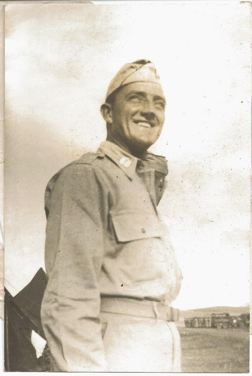 Picture of Chester A. Dolan, Jr.